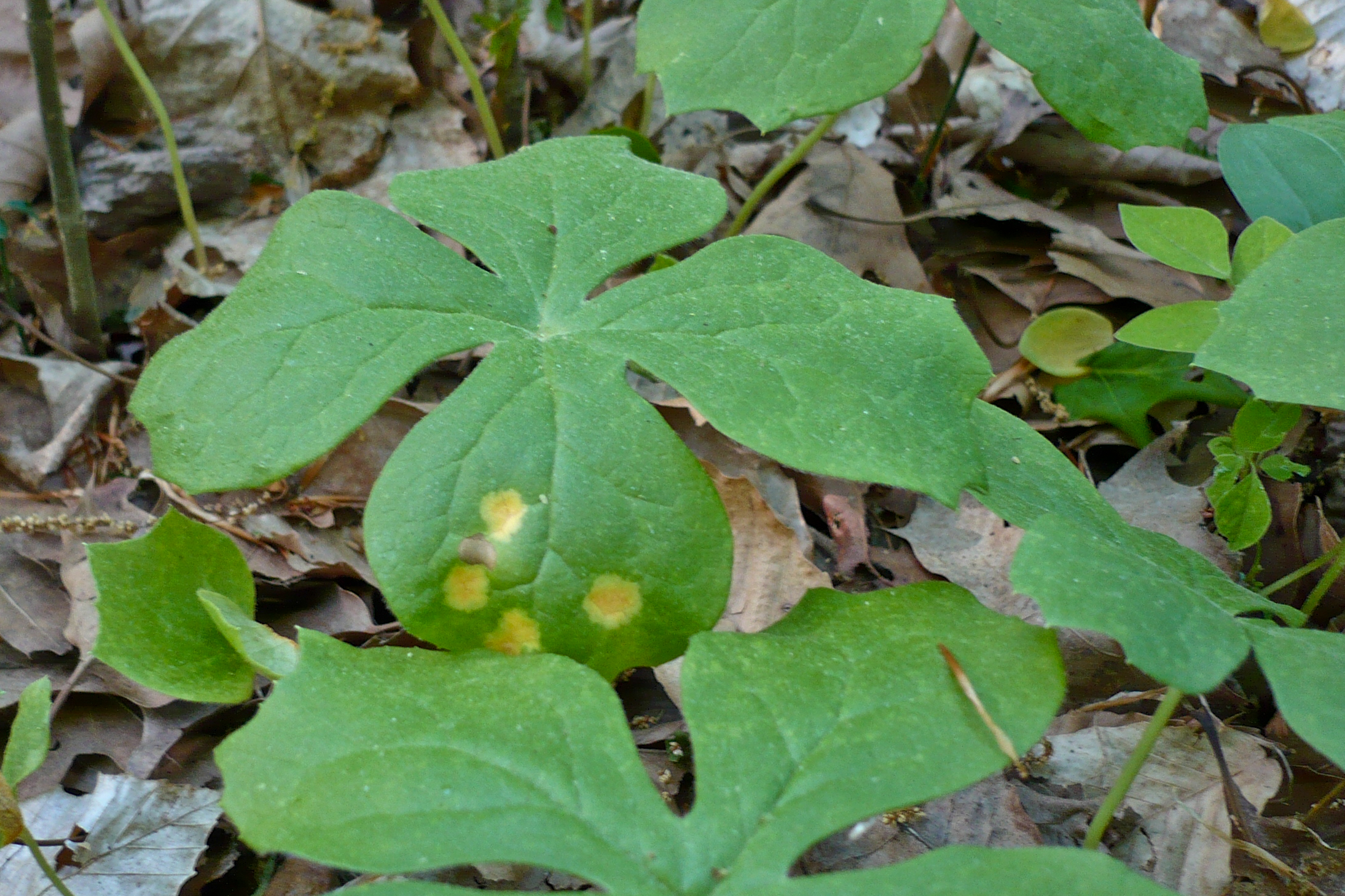 Allodus podophylli on May Apple. Bethabara Park, April 4th, 2012.